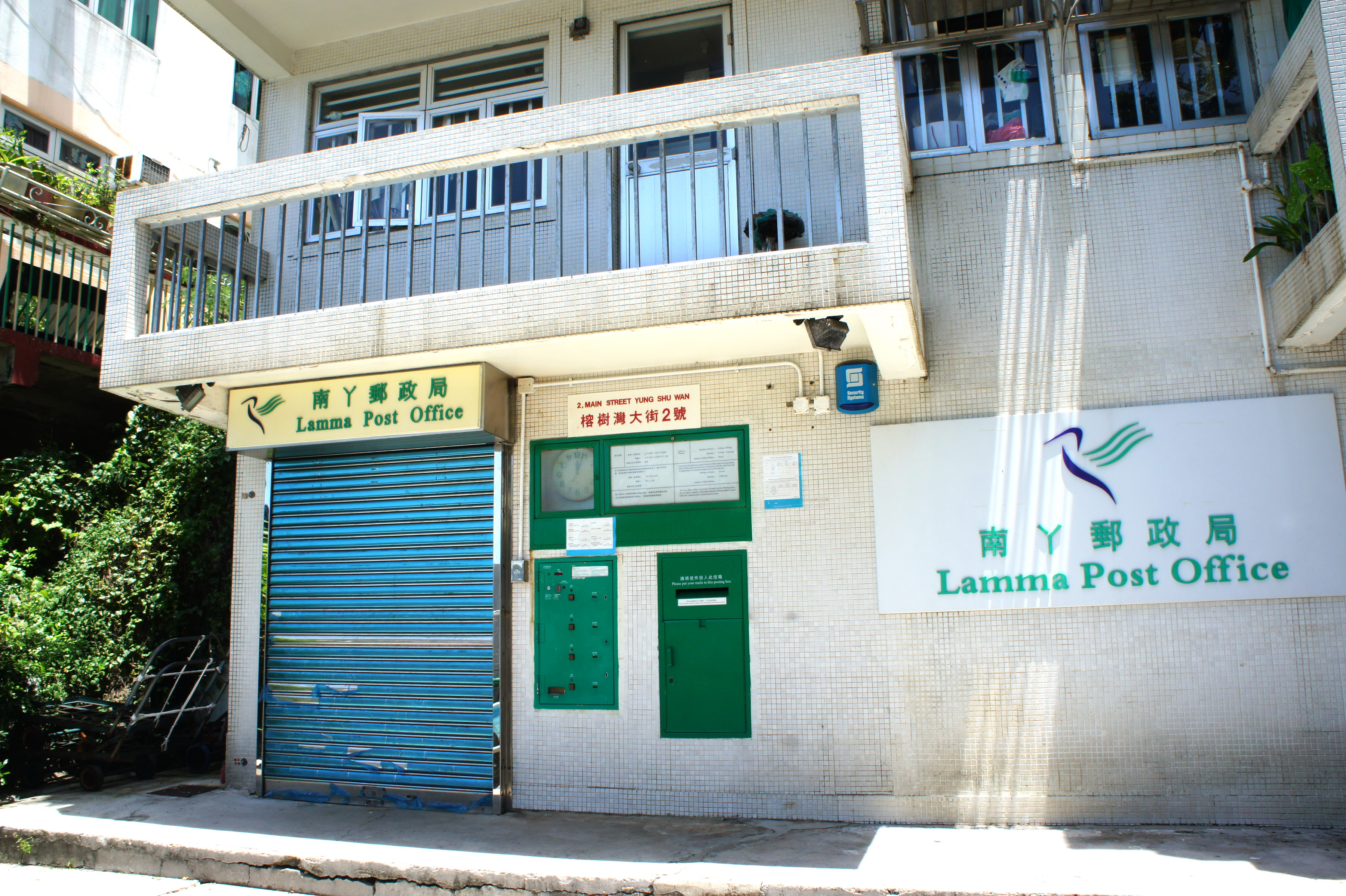 Lamma Post Office, Lamma Island, Hong Kong.